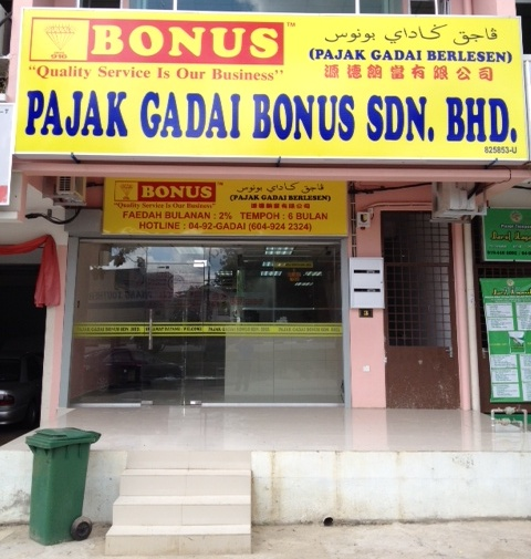 Licensed Pawnshop in Malaysia